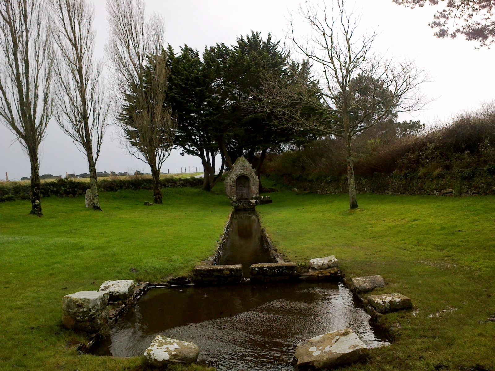 Morbihan Carnac Saint-Colomban Fontaine 03032014